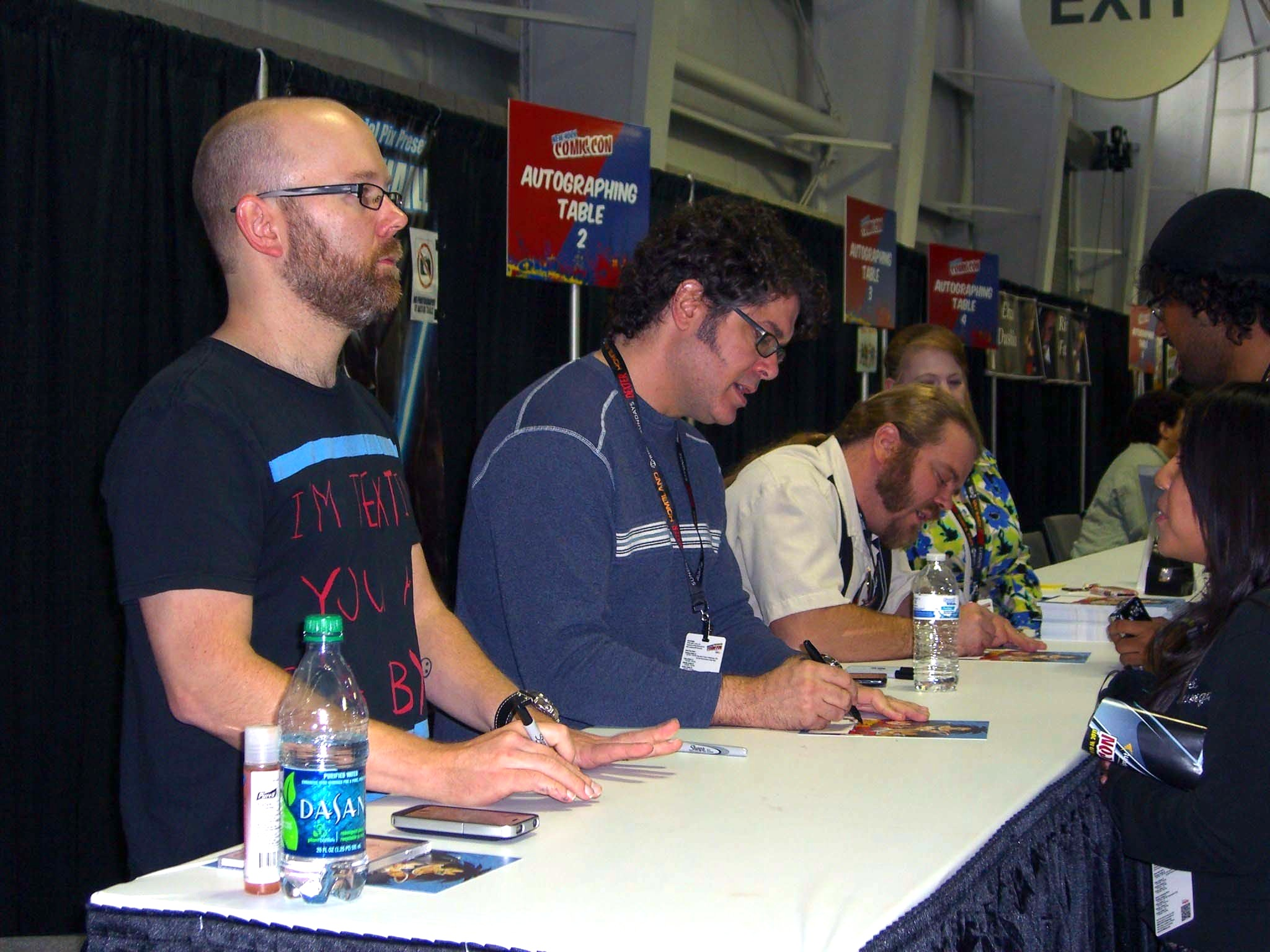 From left to right, seated behind the table: Chris Sabat, Sean Schemmel and Justin Cook, voice actors on the animated TV series Dragonball Z, at the New York Comic Con, October 15, 2011. This photo was created by Luigi Novi. It is not in the public domain, and use of this file outside of the licensing terms is a copyright violation.